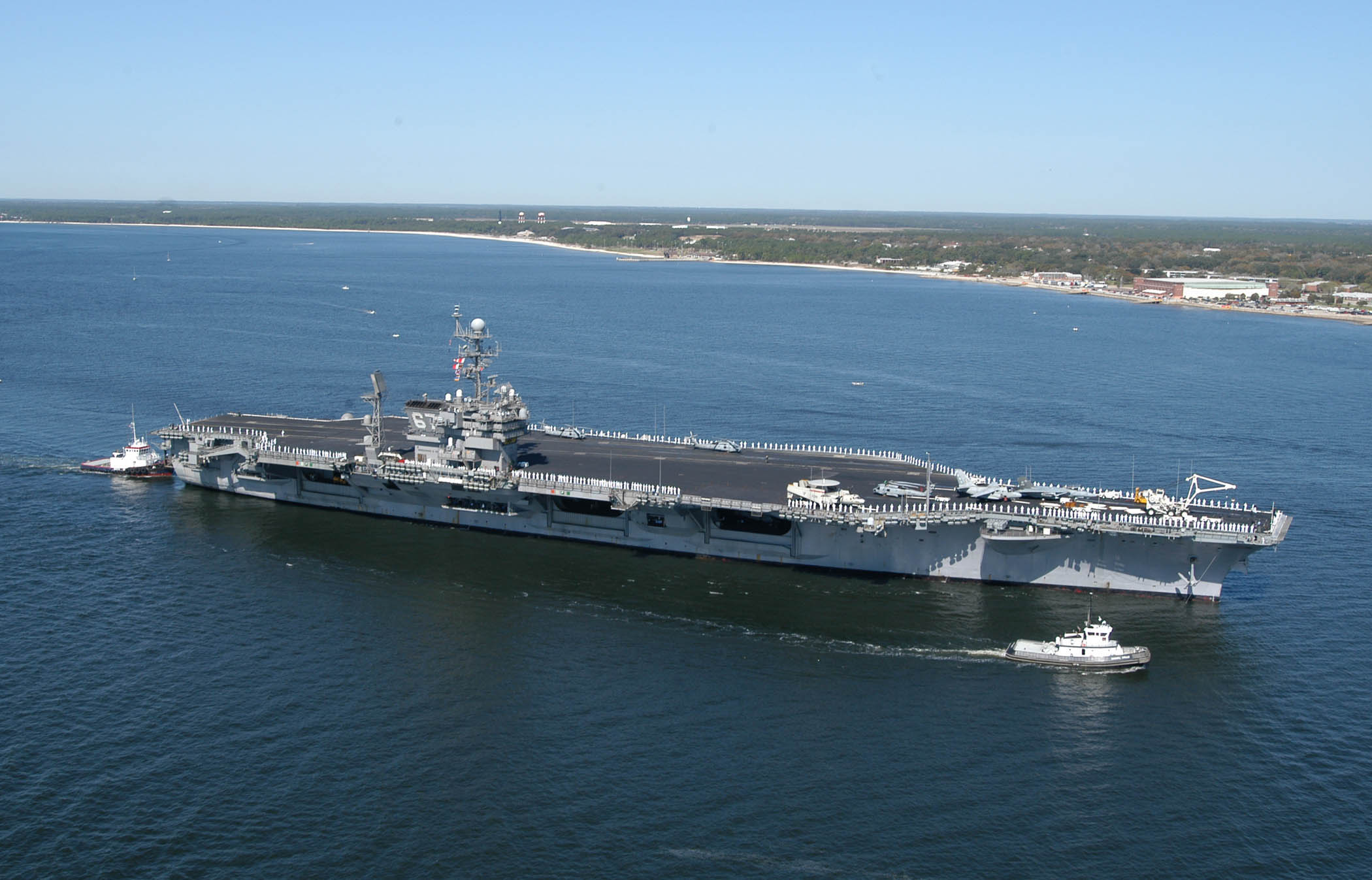 Pensacola, Fla. (Mar. 17, 2004 – USS John F. Kennedy (CV 67) arrives at Naval Air Station Pensacola, Fla., for a four-day port visit after completing a Composite Training Unit Exercise (COMTUEX) in the Gulf of Mexico. COMPTUEX is an intermediate level exercise designed to forge the strike group into a cohesive fighting team and is a critical step in pre-deployment training. During COMPTUEX, more than a dozen ships, and Carrier Air Wing Seventeen (CVW-17) embarked on Kennedy, conducted war game exercises using training ranges along the East Coast of the U.S. and the Gulf of Mexico. The exercise took advantage of existing ranges under the Navy’s comprehensive Training Resource Strategy (TRS). These ranges offer training facilities and realistic simulations, better preparing U.S. Navy ships and Sailors to participate in the Global War on Terrorism. U.S. Navy photo by Patrick Nichols. (RELEASED)